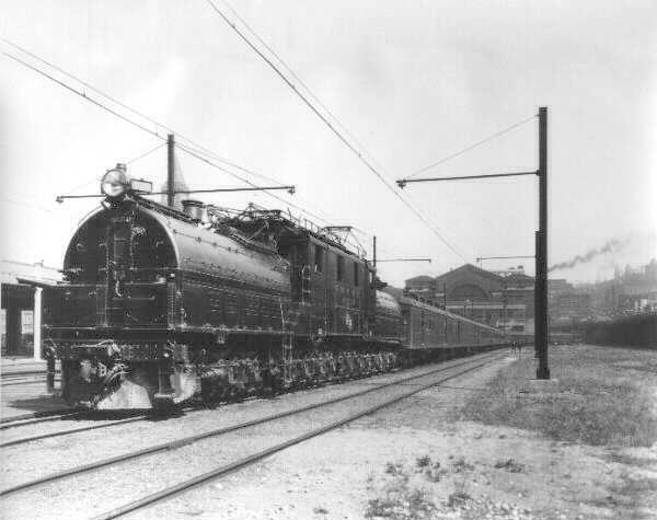 Milwaukee Road EP-2 "Bi-Polar" with passenger train leaving Seattle. Taken from a company presentation, about 1925.